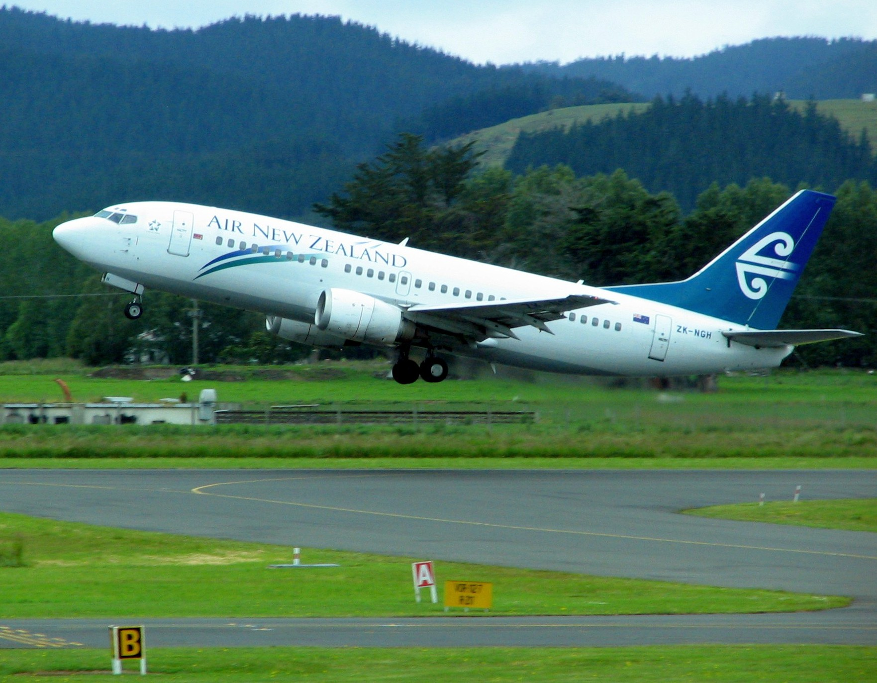 Air New Zealand 737-319 ZK-NGH rotating off runway 03 at Dunedin International Airport, New Zealand